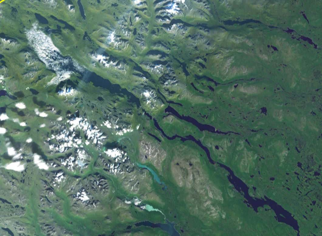 The swedish lake Akkajaure